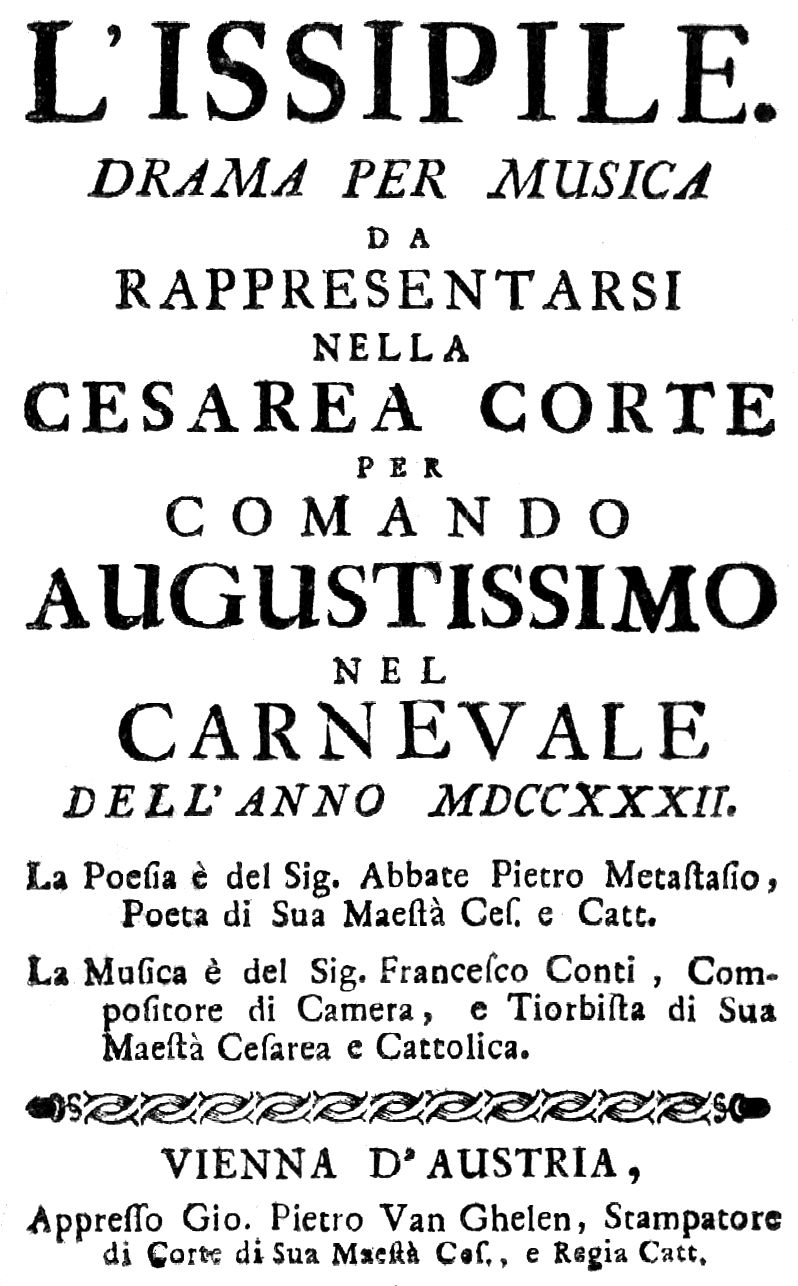 Francesco Bartolomeo Conti - Issipile - titlepage of the libretto - Vienna 1732